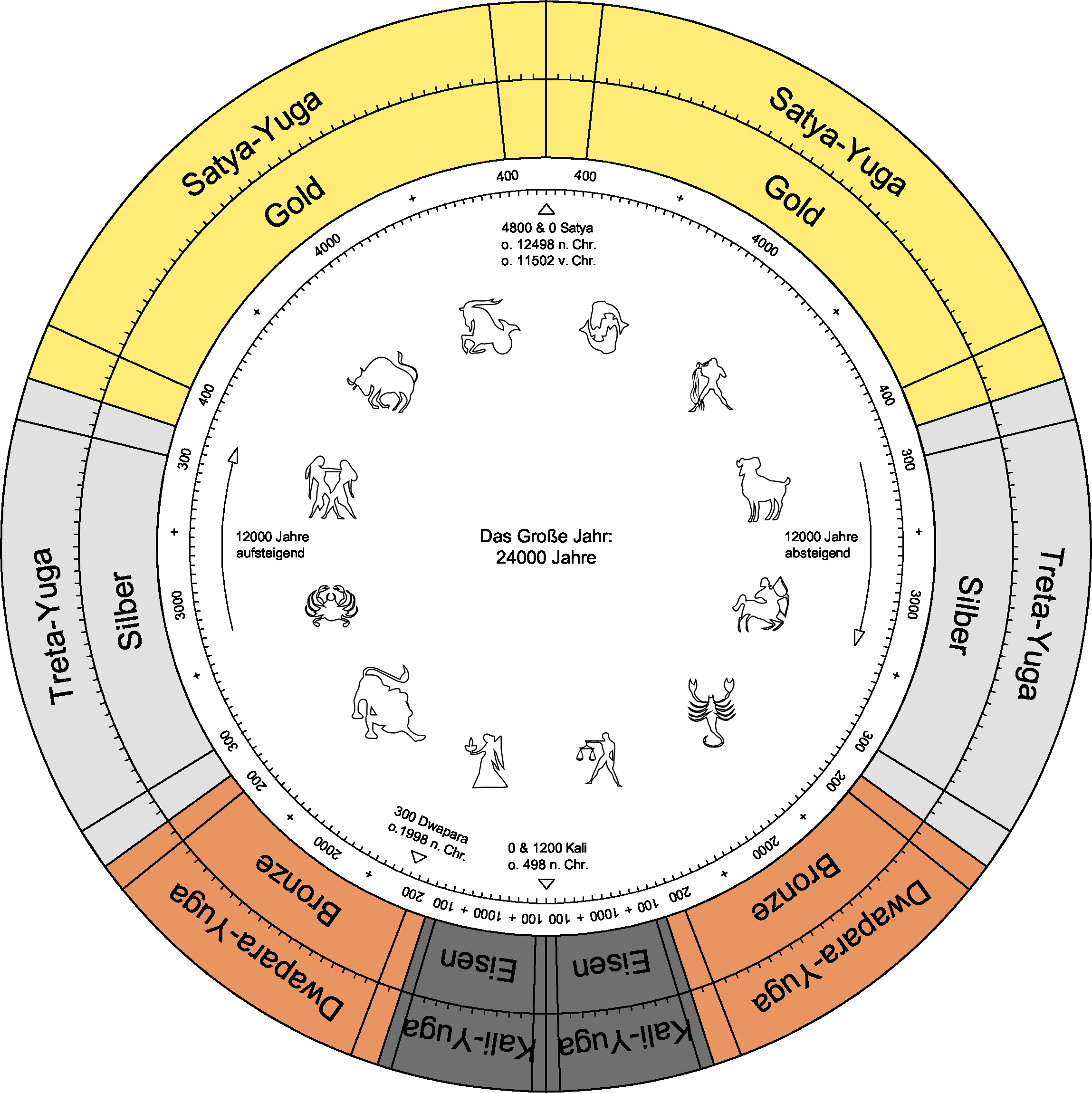 Shows ascending and descending ages based on descriptions from Sri Yukteswar in german.